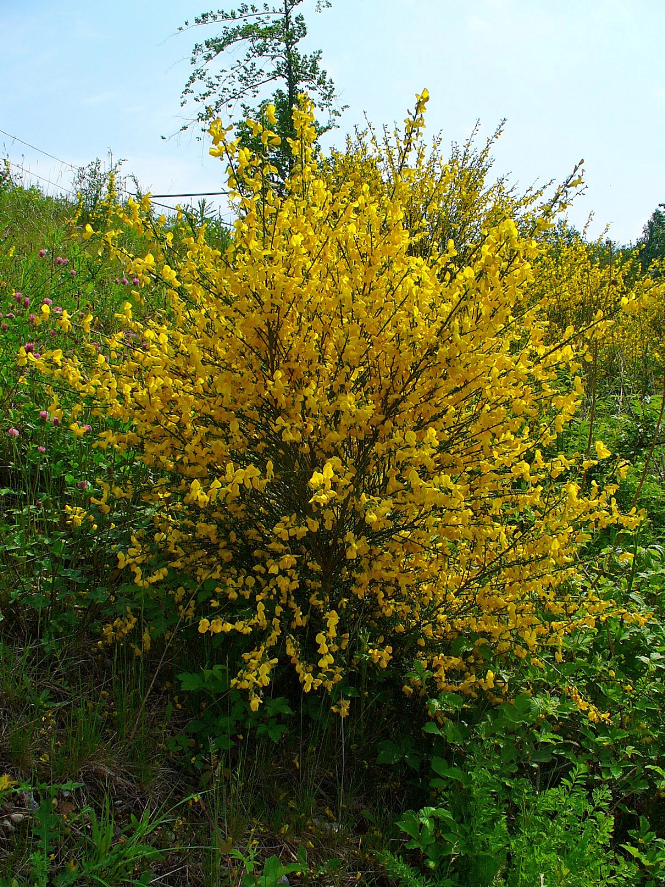 Cytisus scoparius, Fabaceae, Common Broom, habitus; Waldbronn, Germany. The fresh, stripped off flowers with the leaves, without branchtips, are used in homeopathy as remedy: Spartium scoparium (Spar.)